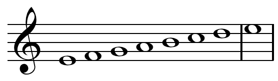 Phrygian mode on E.